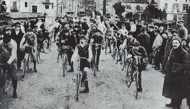 First edition of the "Volta Ciclista a Catalunya" cycling race. January 6, 1911. They are starting in Barcelona.